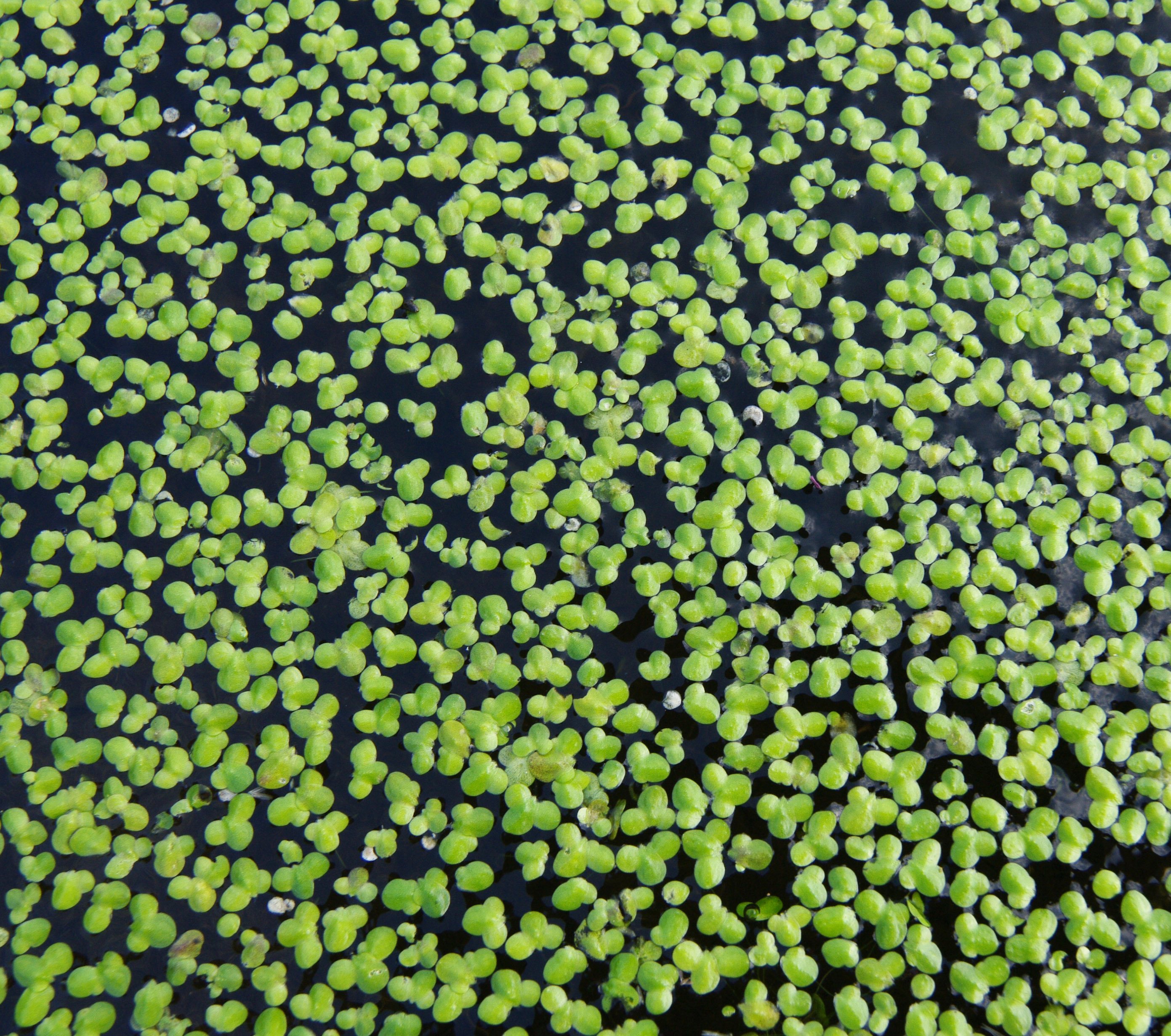 The Lesser Duckweed (Lemna minor) on the surface of a pond.